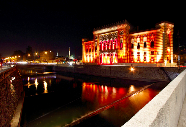 Vijećnica - National library of Bosnia-Herzegovina